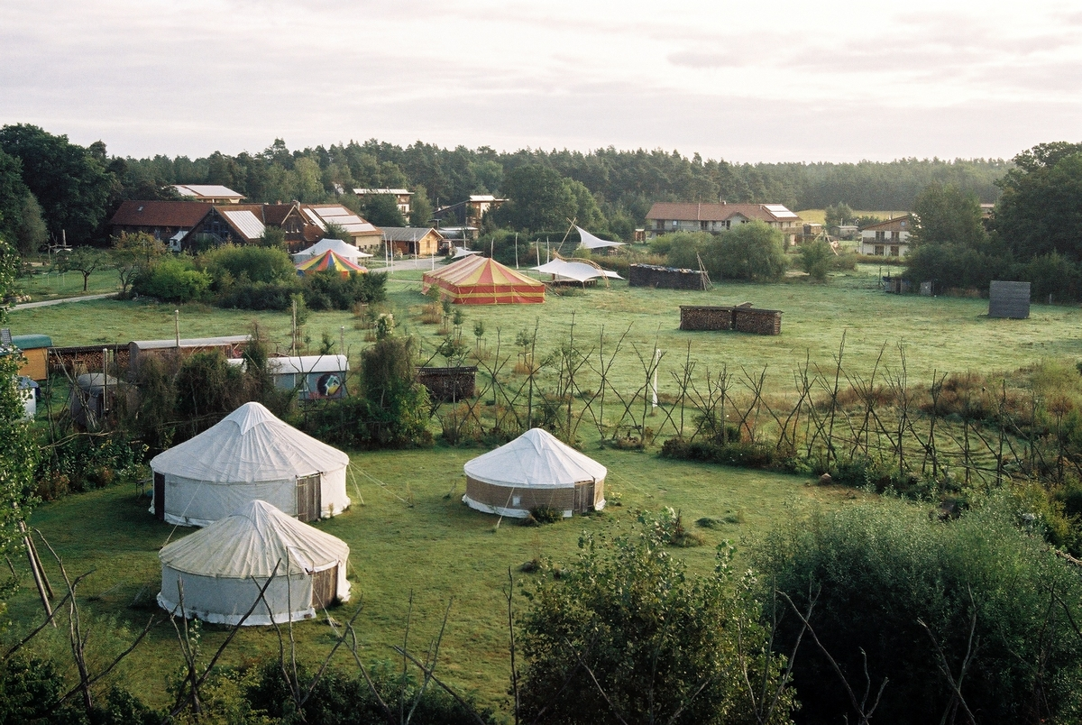 Sieben Linden Ecovillage behind the yurts of "Globolo"